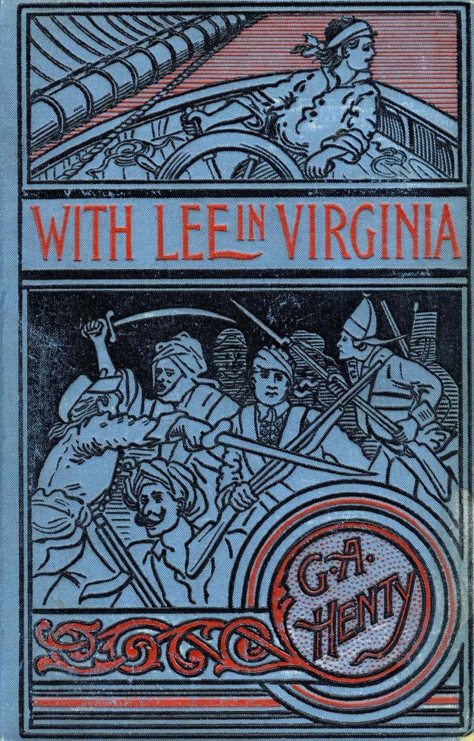 Front cover of With Lee in Virginia. A Story of the American Civil War, by G. A. Hently - A. L. Burt, Publisher.